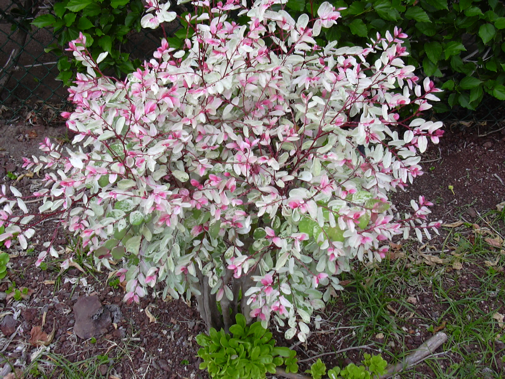 Breynia disticha (habit). Location: Maui, Kahului